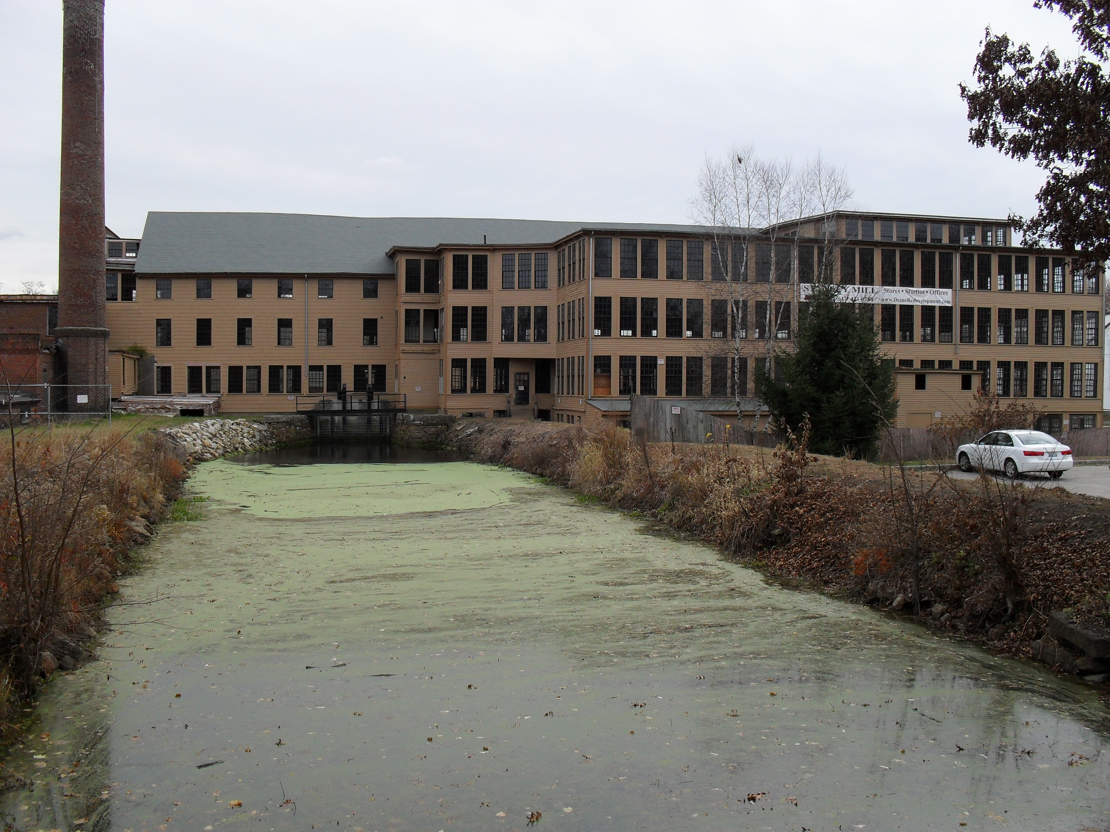 Moses Taft Mill, Central Woolen Mill, Calumet Mill, Stanely Woolen Mill, built circa 1850, at Uxbridge, MA photo taken Nov. 11, 2009. The mill was built by Moses Taft, an early American industrialist and member of the American Taft Family